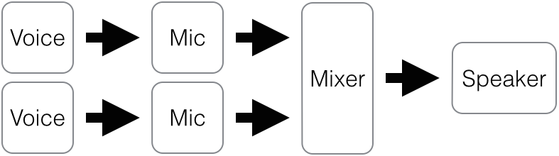 A depiction of a typical sound reinforcement system for the article A/B Sound Systems